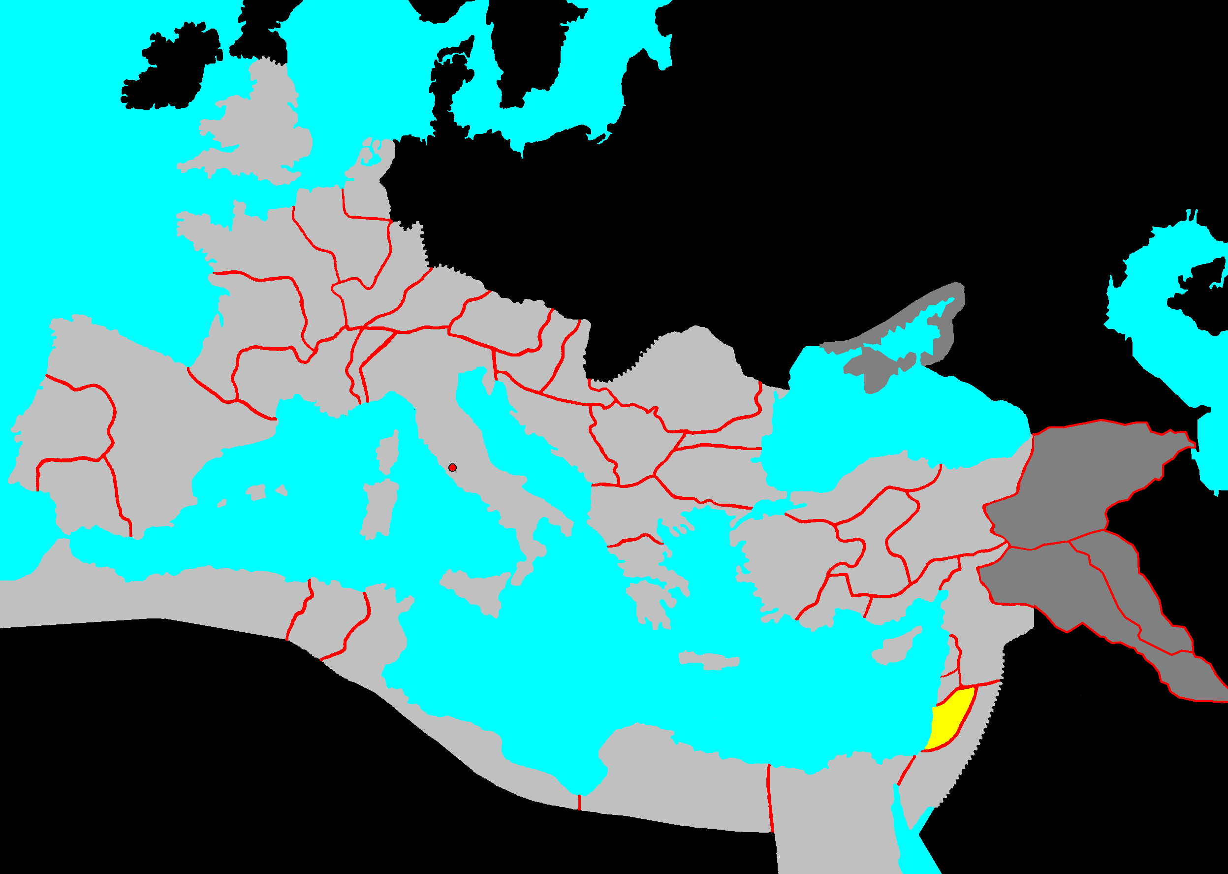 Description: provinces of the Roman Empire (Imperium Romanum)